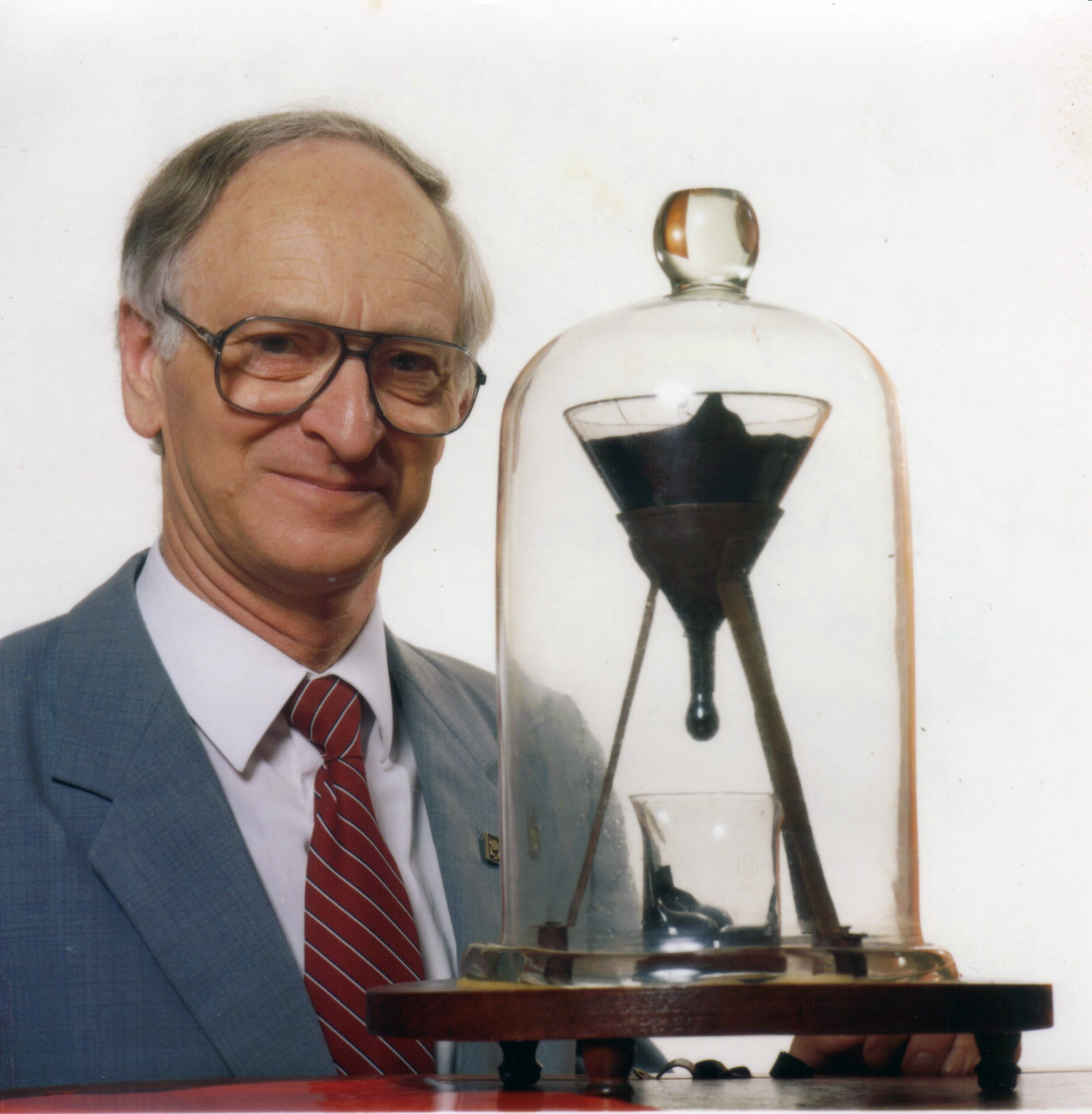 Picture of the Pitch Drop Experiment from University of Queensland featuring the current (2007) custodian, John Mainstone (picture taken in 1990), two years into the life of the 8th drop